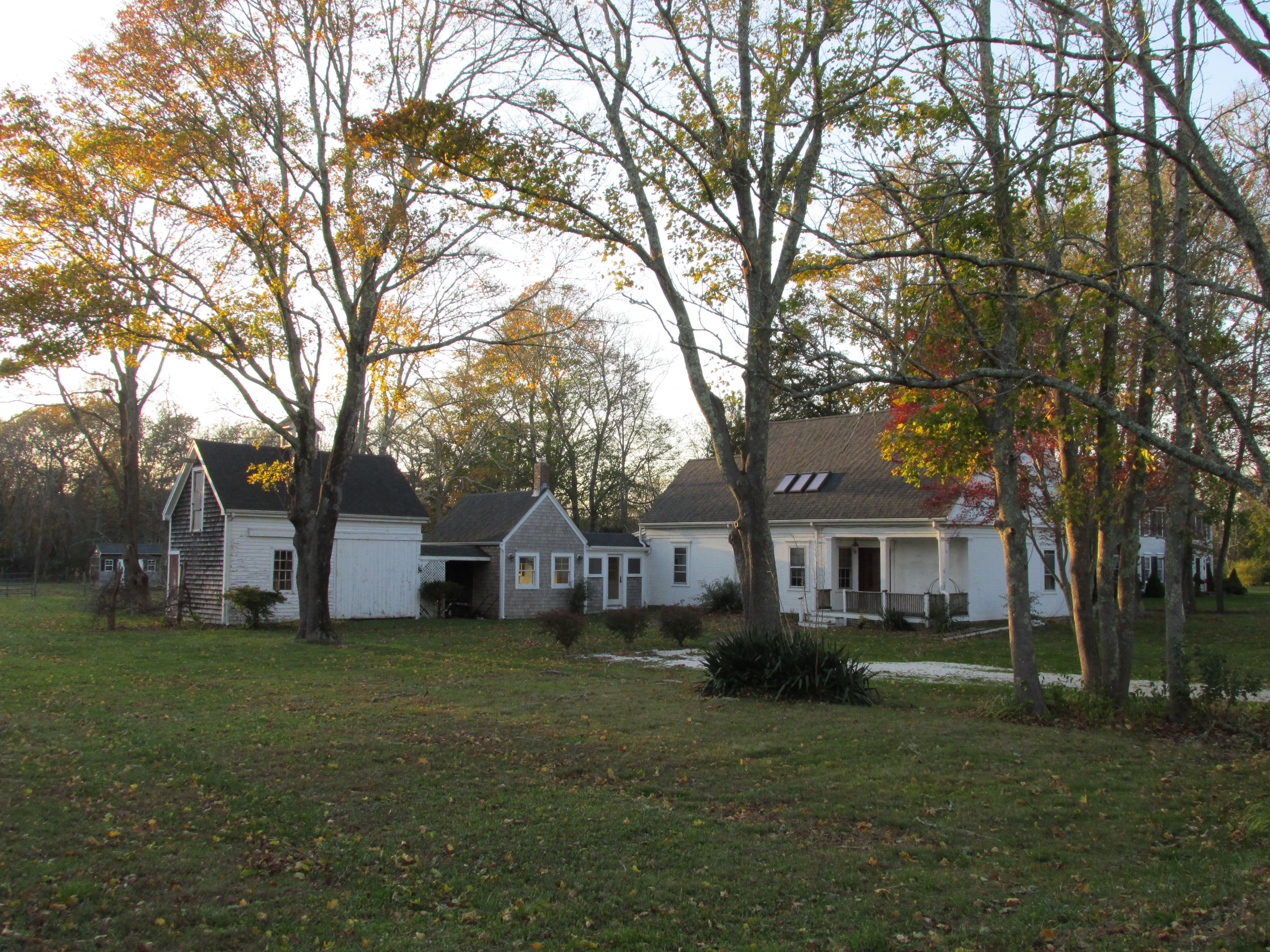 131 Main St, Barnstable Massachusetts